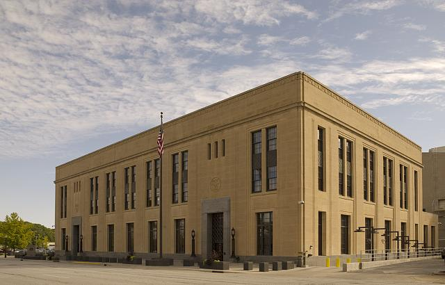 The exterior of the United States Courthouse in Davenport, Iowa